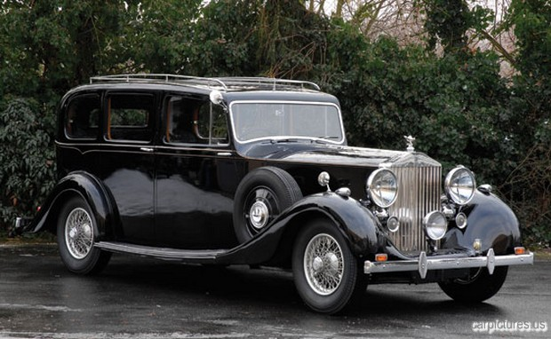 Rolls-Royce Wraith Limousine by Hooper 1938